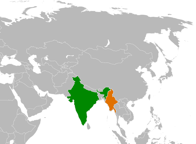 Locator map showing India and Burma